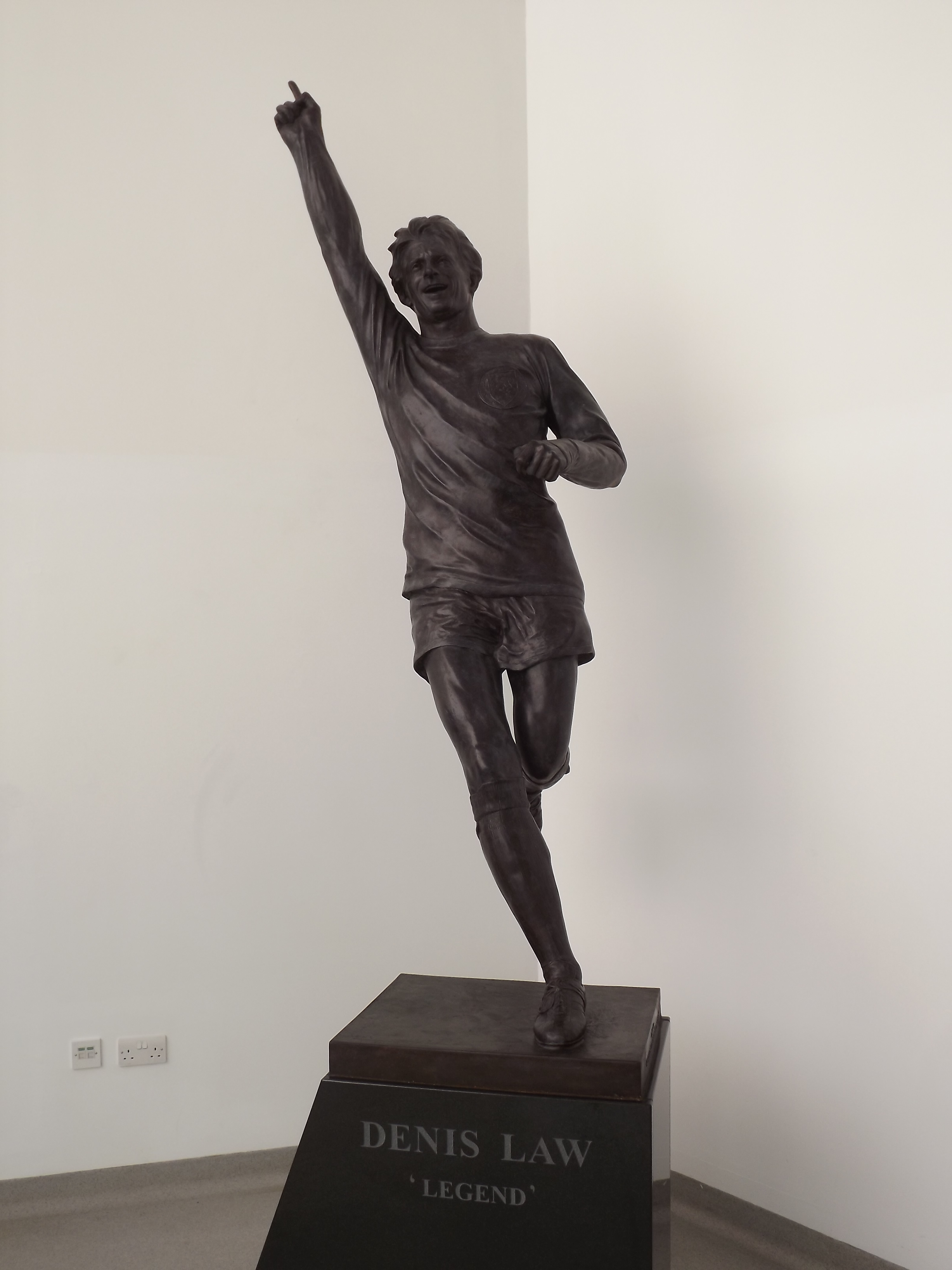 Denis Law - "Legend"